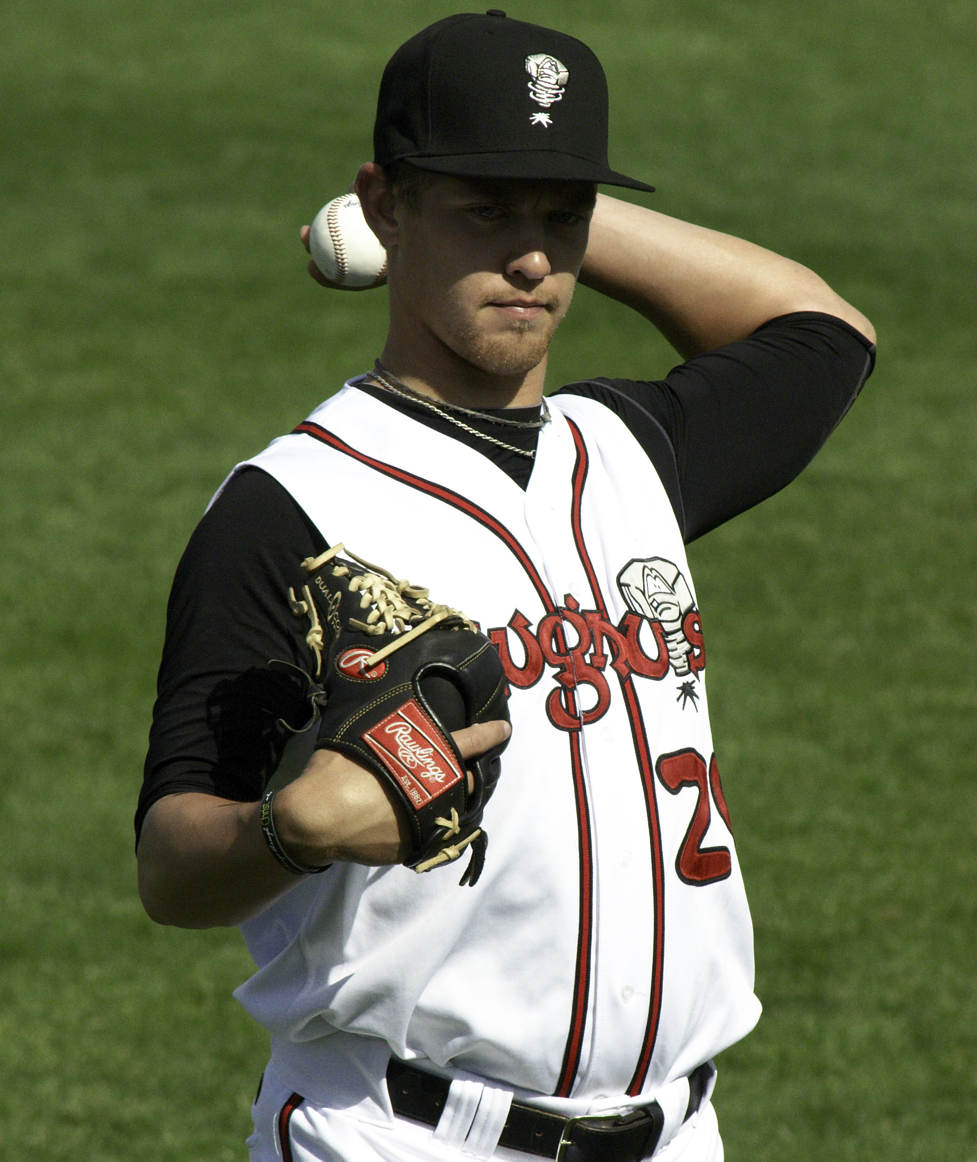 David Rollins with the Lansing Lugnuts at Cooley Law School Stadium in Lansing, Michigan in 2012